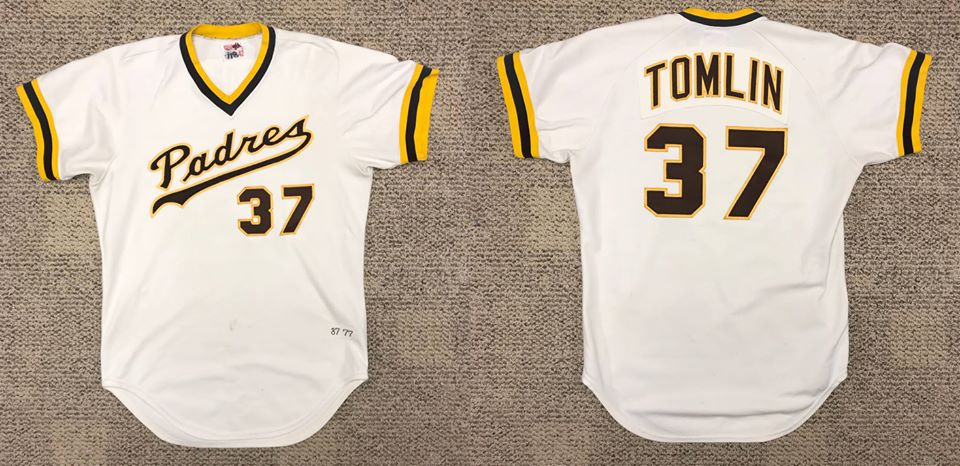 1977 San Diego Padres #37 Dave Tomlin game worn home jersey restored and photographed by William F. Henderson who may be contacted through his website thedream.shop